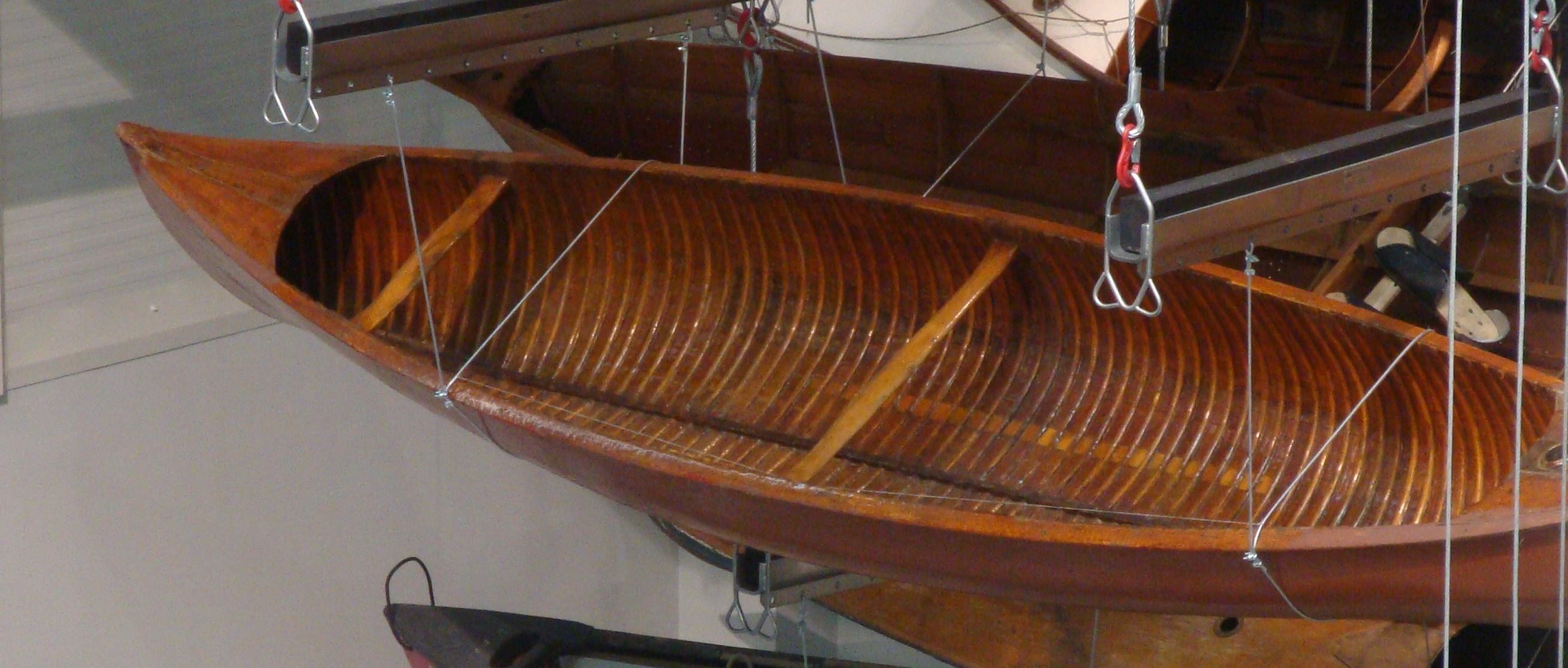 Canadian canoe exhibited in Shipwreck Conservation Centre in Tczew (branch of National Maritime Museum in Gdańsk), Poland. Made before II World War in Canada, was donated to Lomżyńskie Towarzystwo Żeglarskie (Łomża Sailing Society).